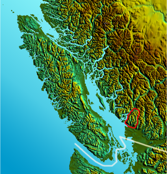 Shaded Relief map of Vancouver Island and south-western British Columbia, North Shore Mountains highlighted